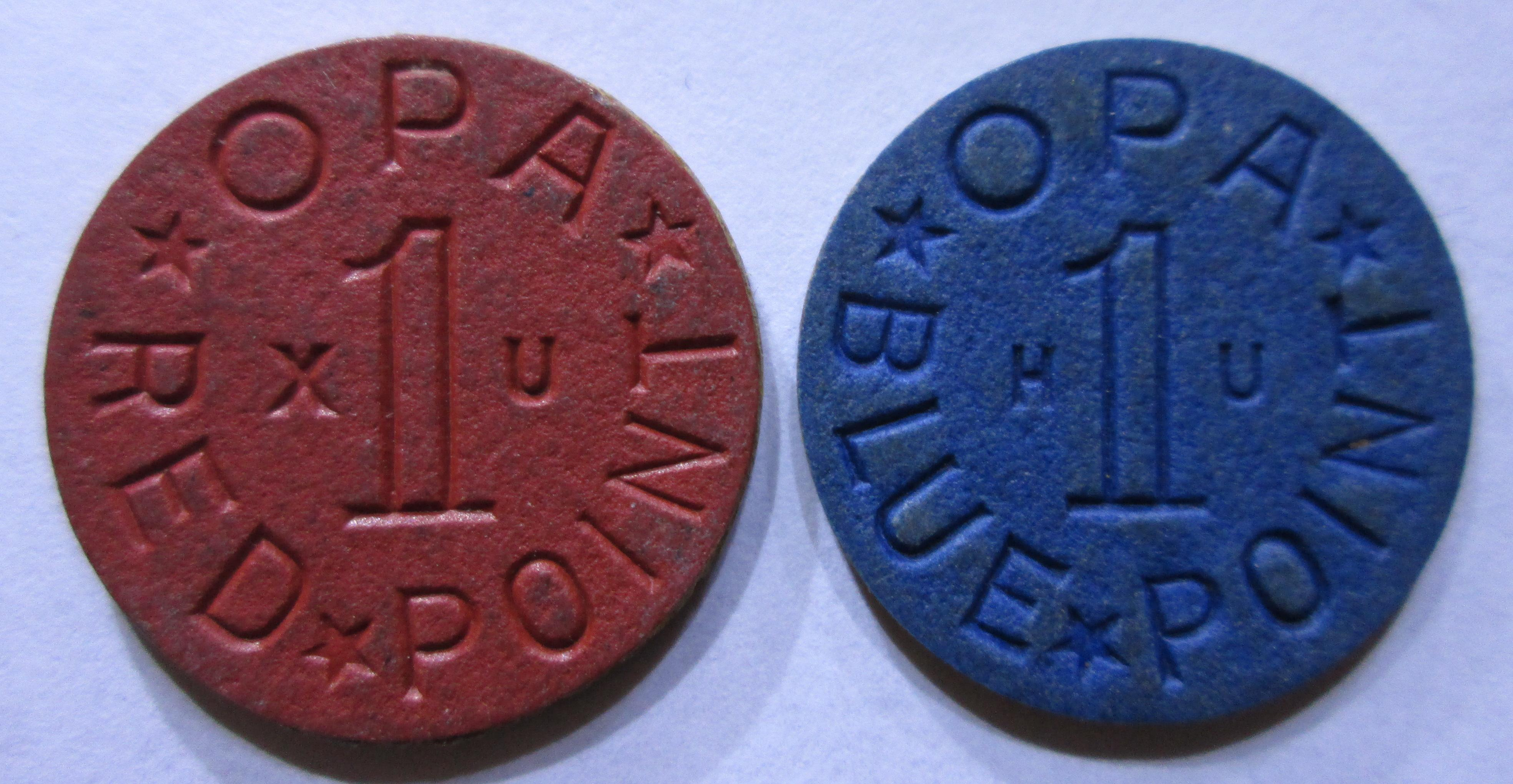 A red and a blue Office of Price Administration (OPA) ration token from World War II. These tokens have the same design on both sides.